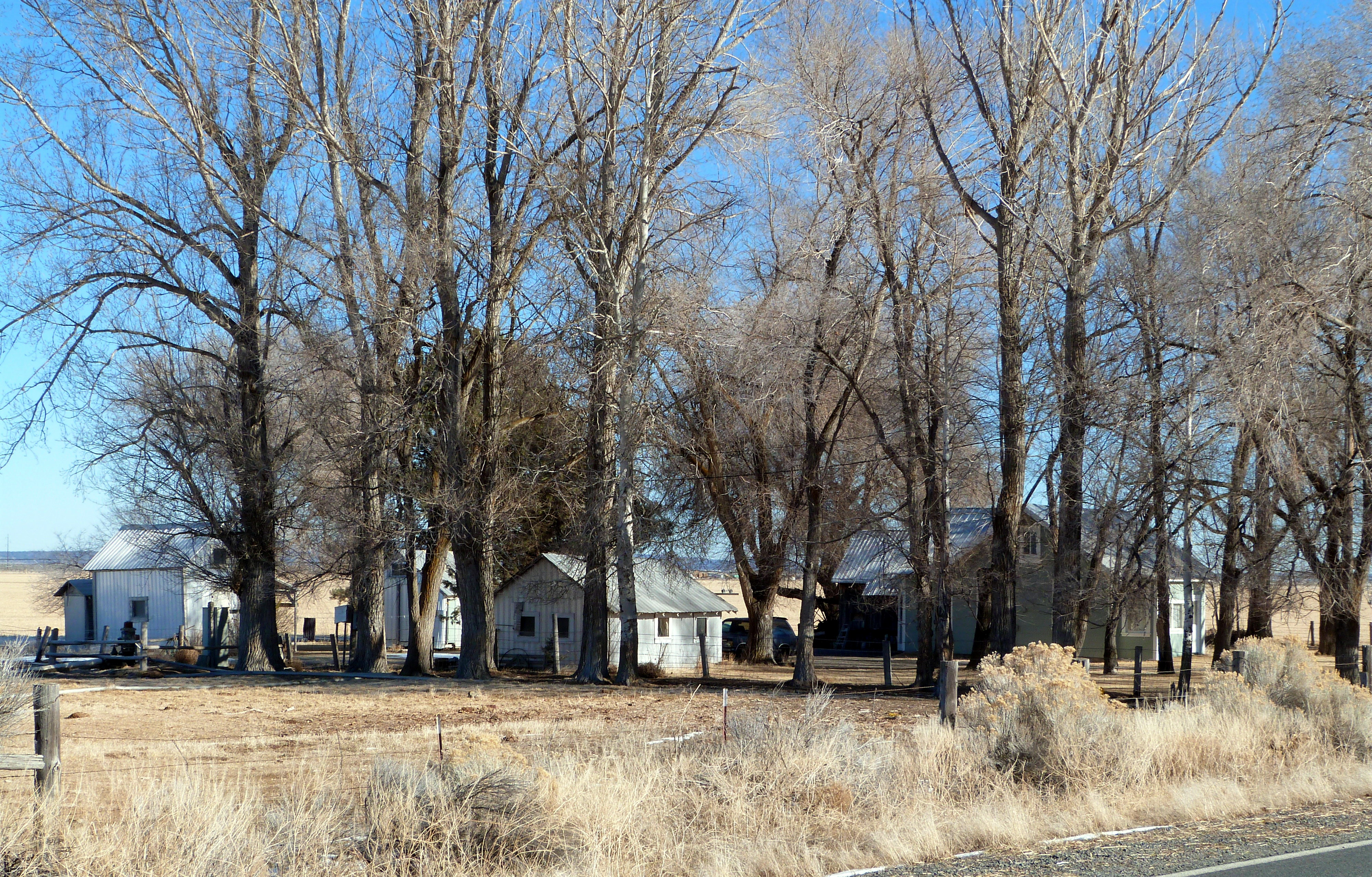 The historic Ed Eskelin Ranch Complex, located on County Road 5-10 near Silver Lake, Oregon, United States, is listed on the US National Register of Historic Places.